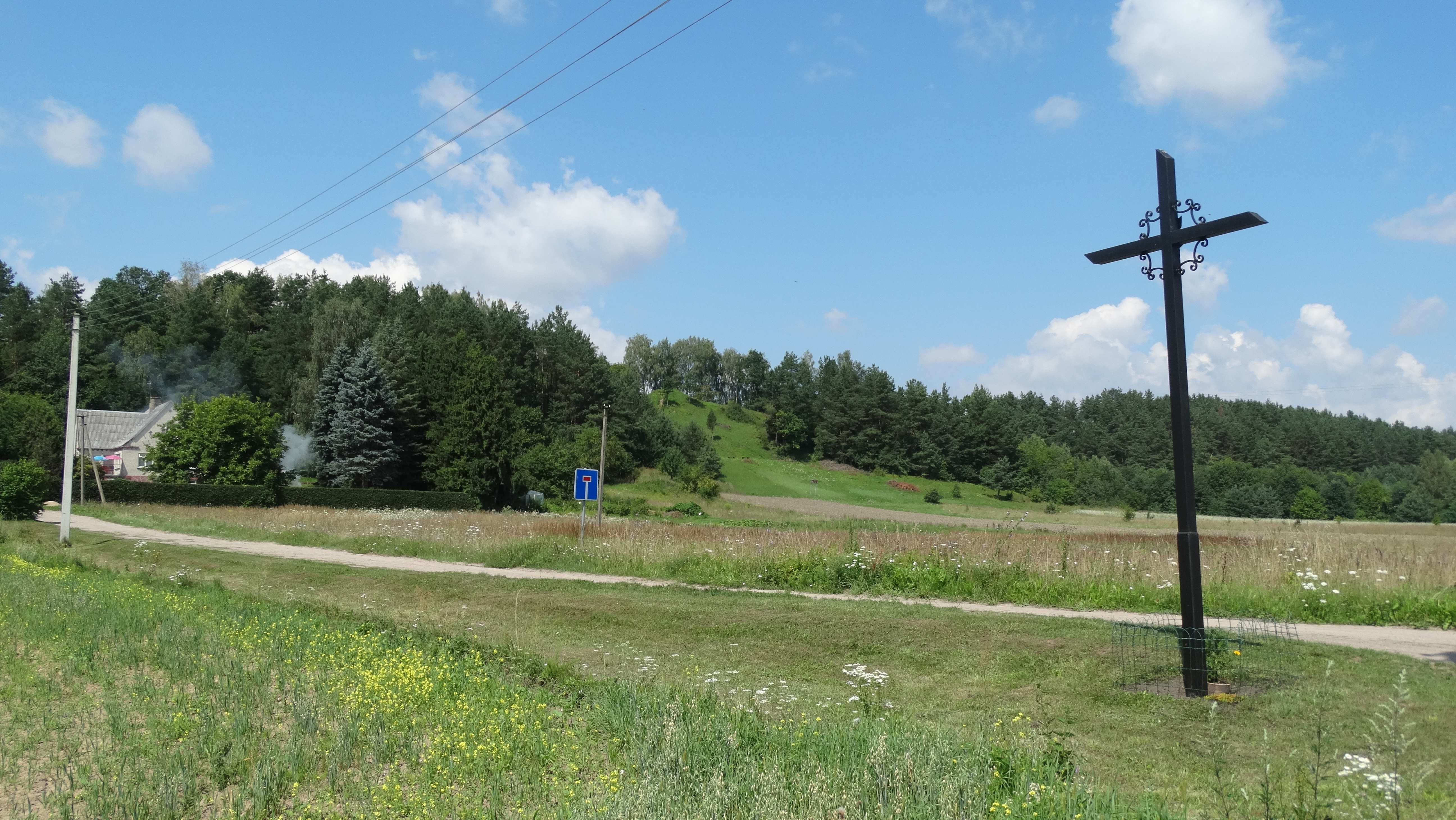 Masteikiai, Kaunas district, Lithuania